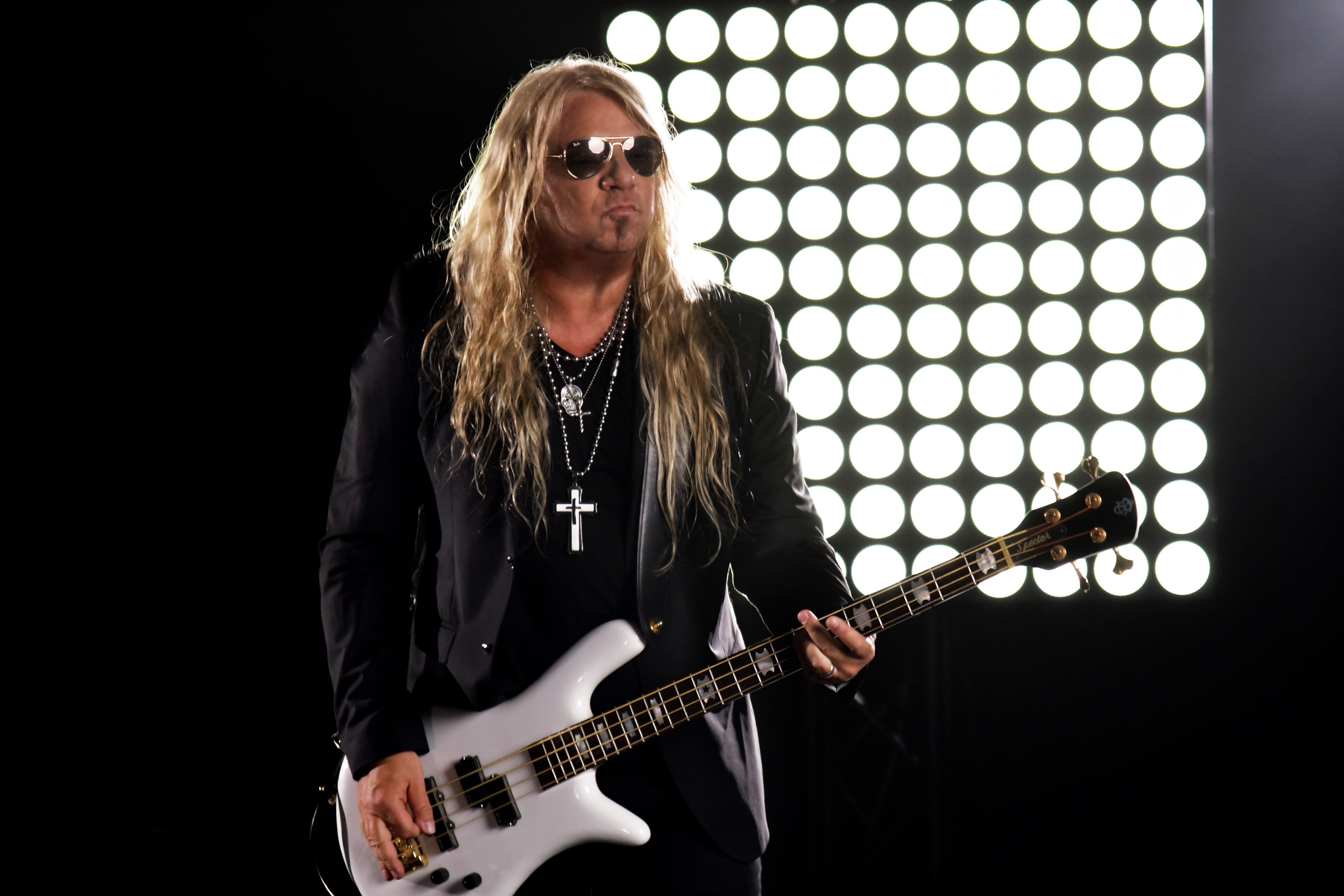 Mat Sinner 2019 "Sinner - Fiesta Y Copas"